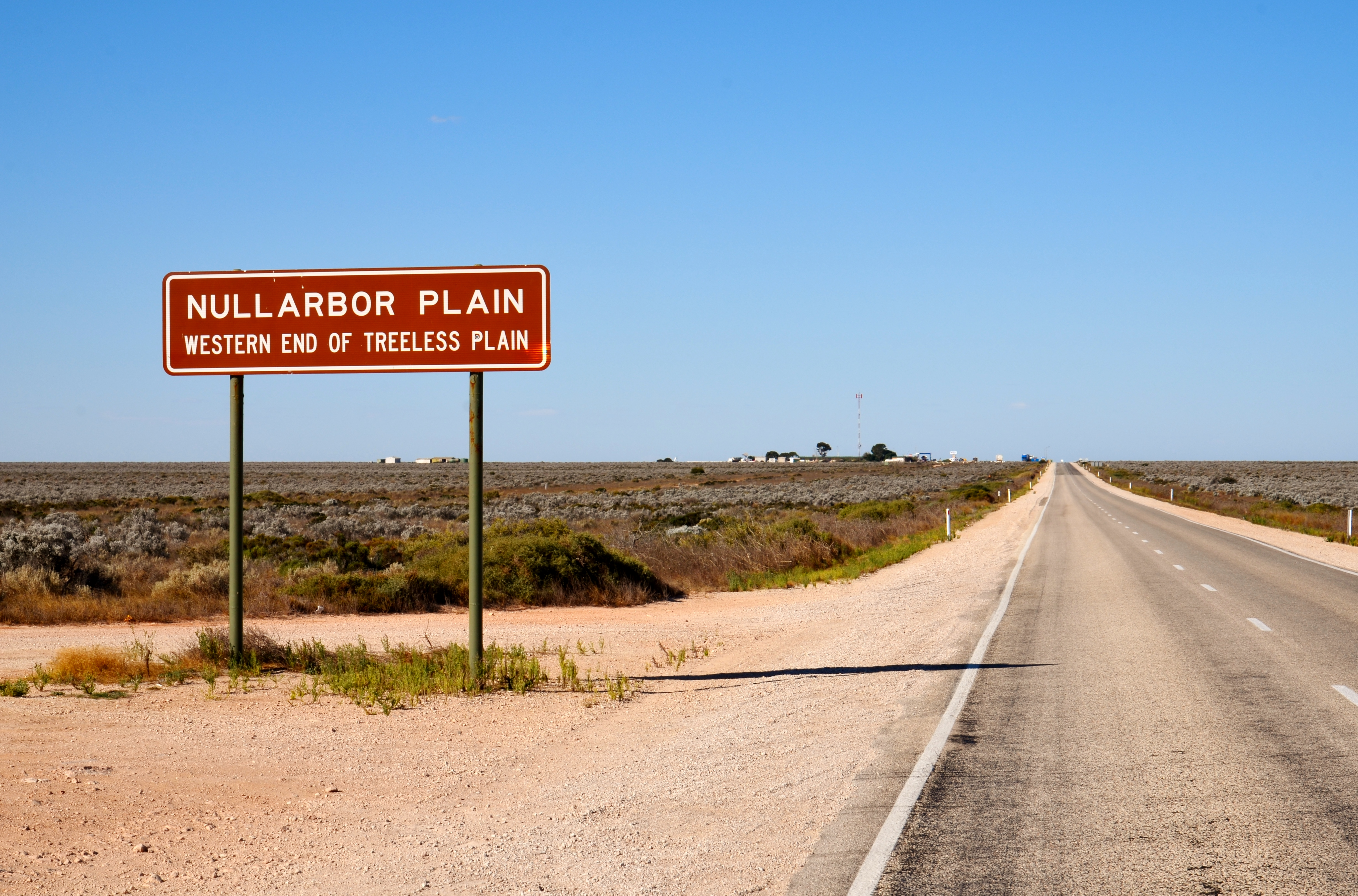 Highway sign on the Eyre Highway near Nullarbor, South Australia (which is visible in the background), marking the western end of the treeless plain.